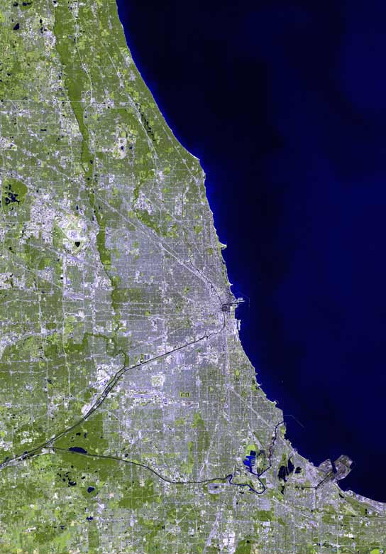 The raw satellite imagery shown in these images was obtain from NASA and/or the US Geological Survey. Post-processing and production by